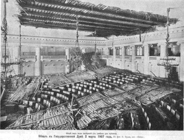 Tauride Palace, St. Petersburg (then the seat of Russian legislature). Roof collapse of March 2, 1907.